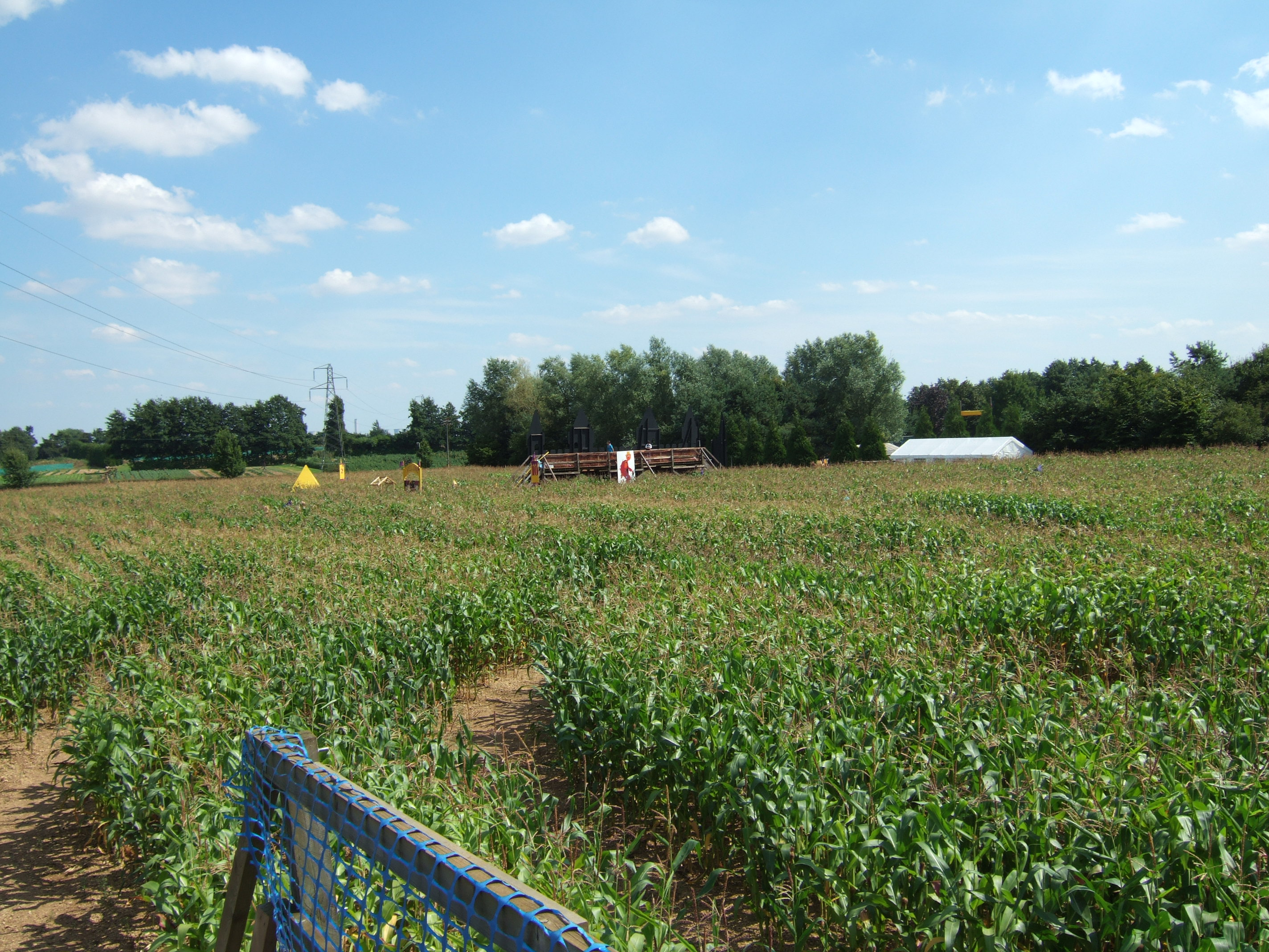 Millets' Maize Maze 2007, Millets Farm Centre, Oxfordshire, UK